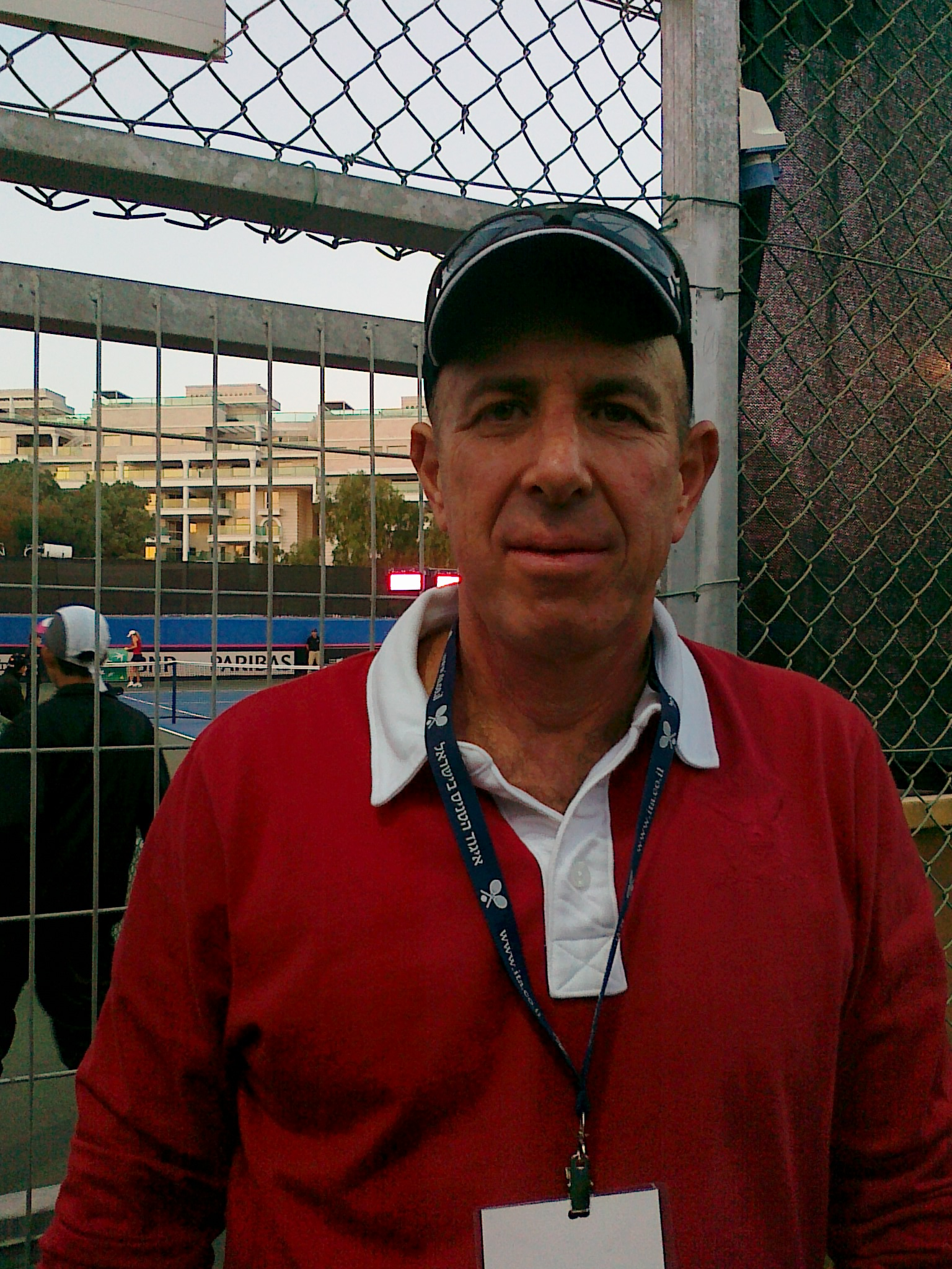 Shlomo Glickstein, at Fed Cup, Eilat, Israel 2013